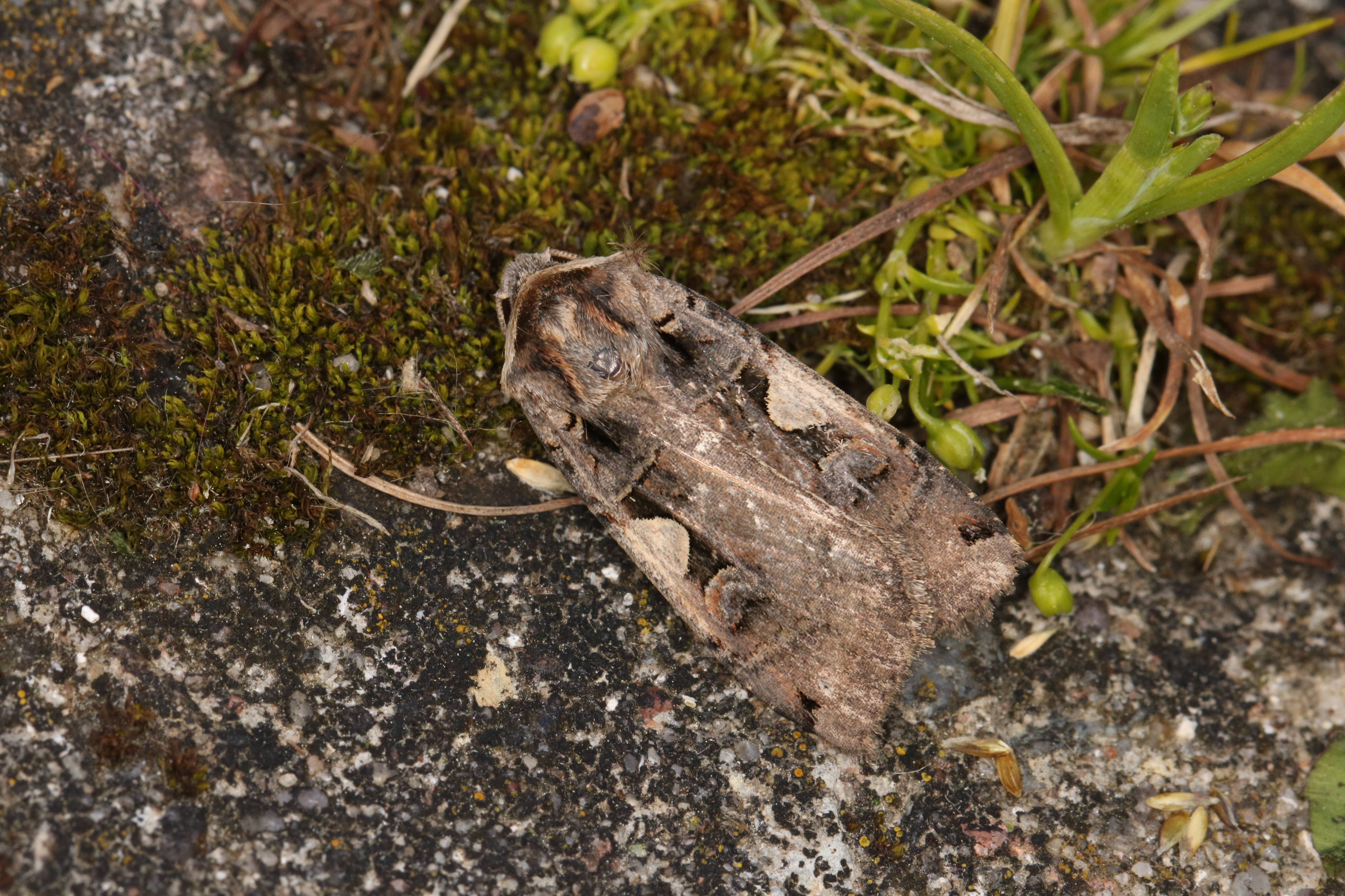 Xestia c-nigrum (Linnaeus, 1758), Setaceous Hebrew Character, to Robinson trap, Søborg, Denmark, 11/12 June 2015